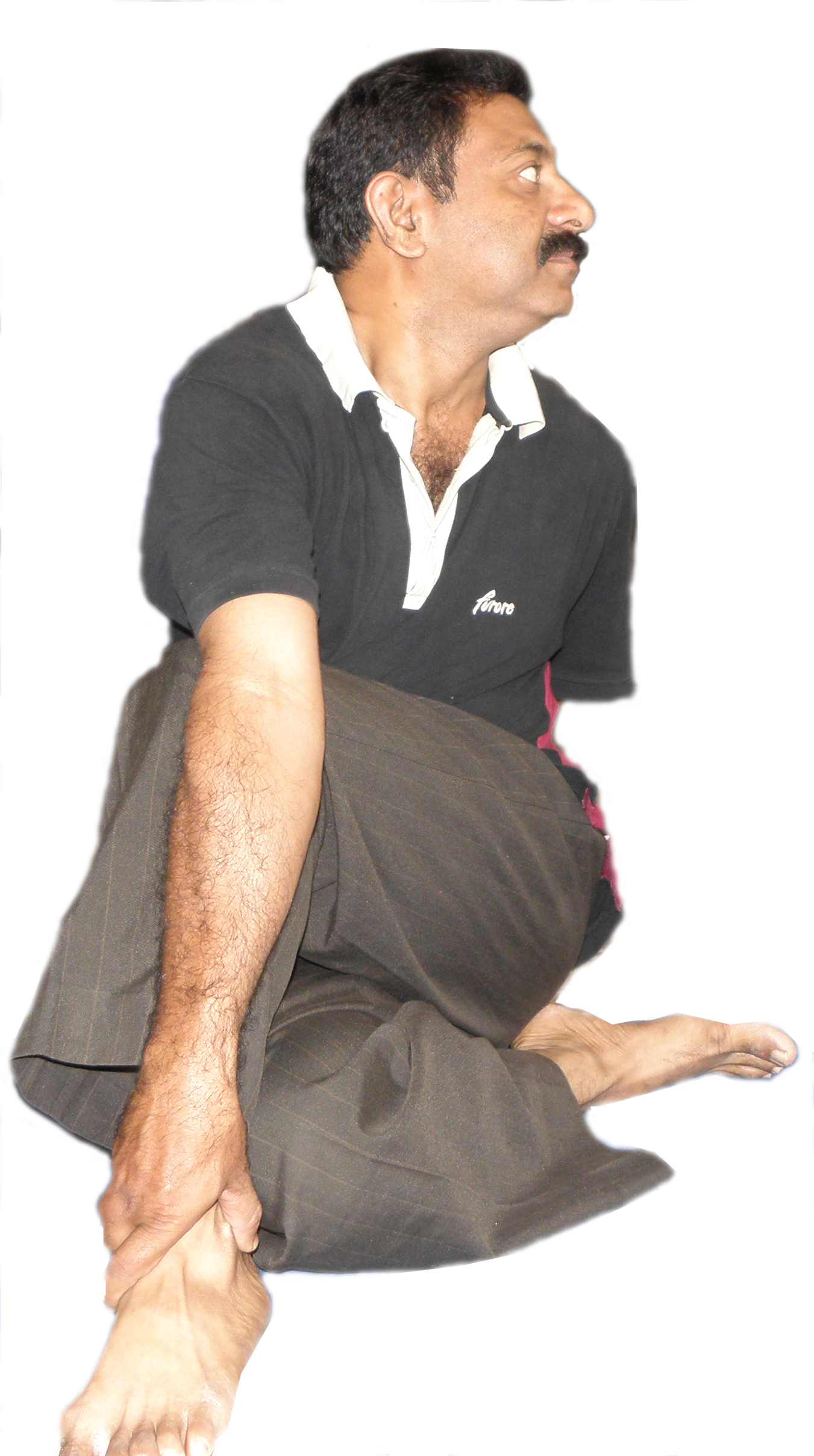 Half Spinal Twist